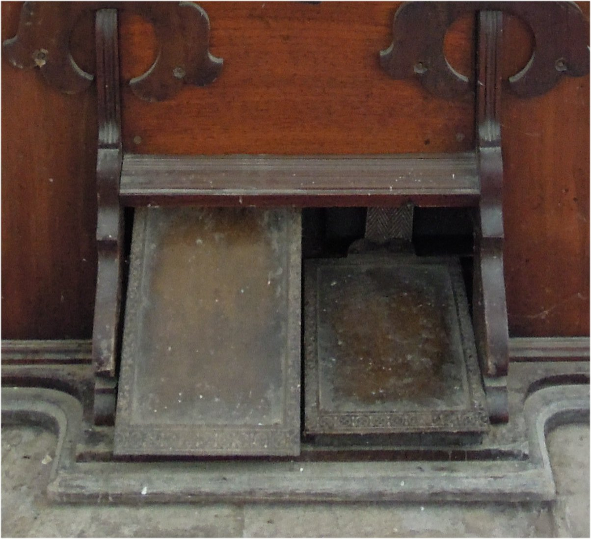 Old organ pump pedals from a nineteenth century pump organ